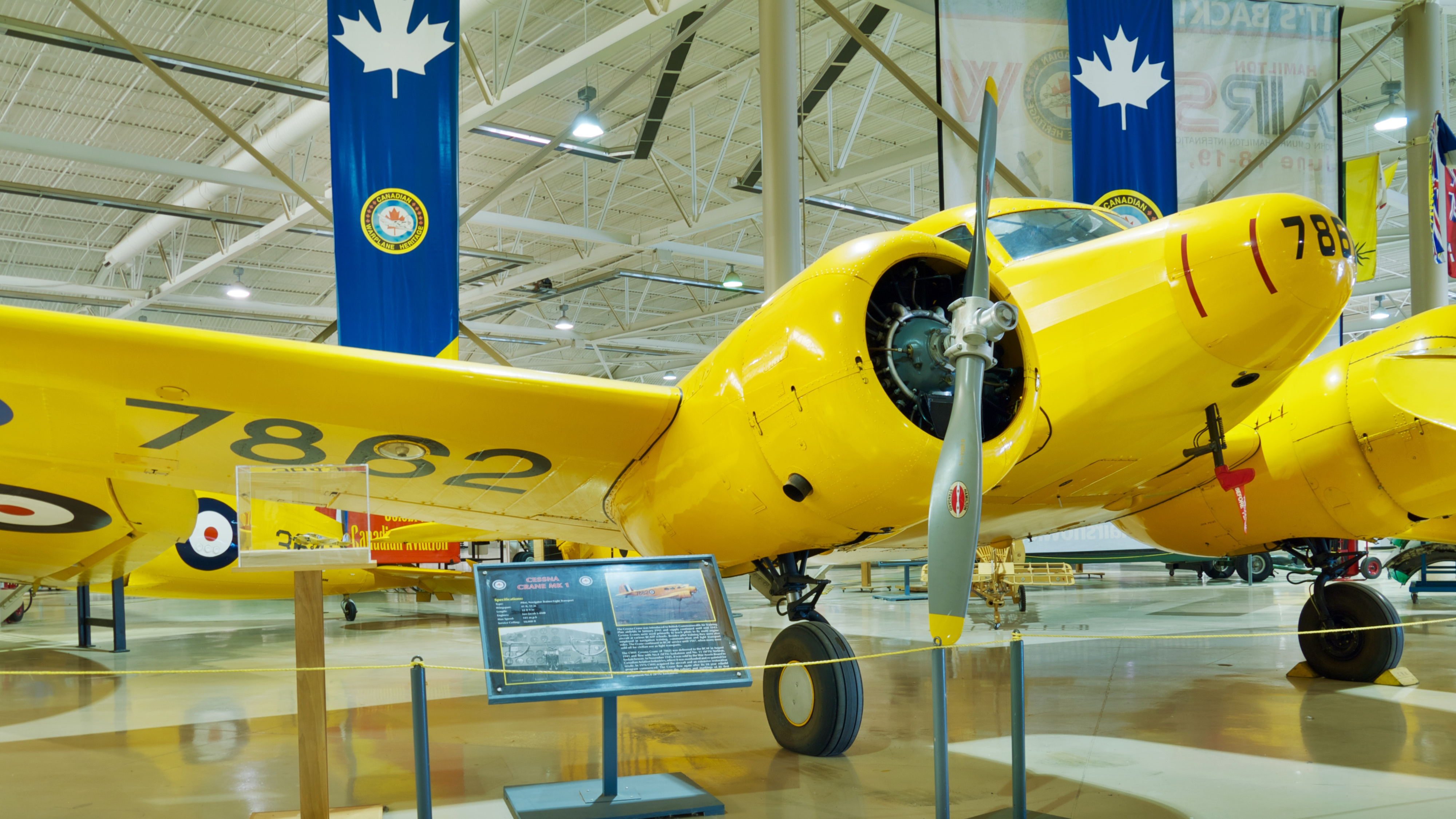 Cessna Crane Mk 1 on display at the Canadian Warplane Heritage Museum